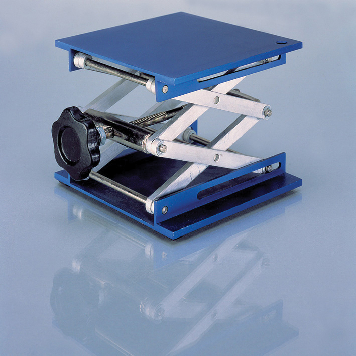 Lifting stage in chemistry or other labs